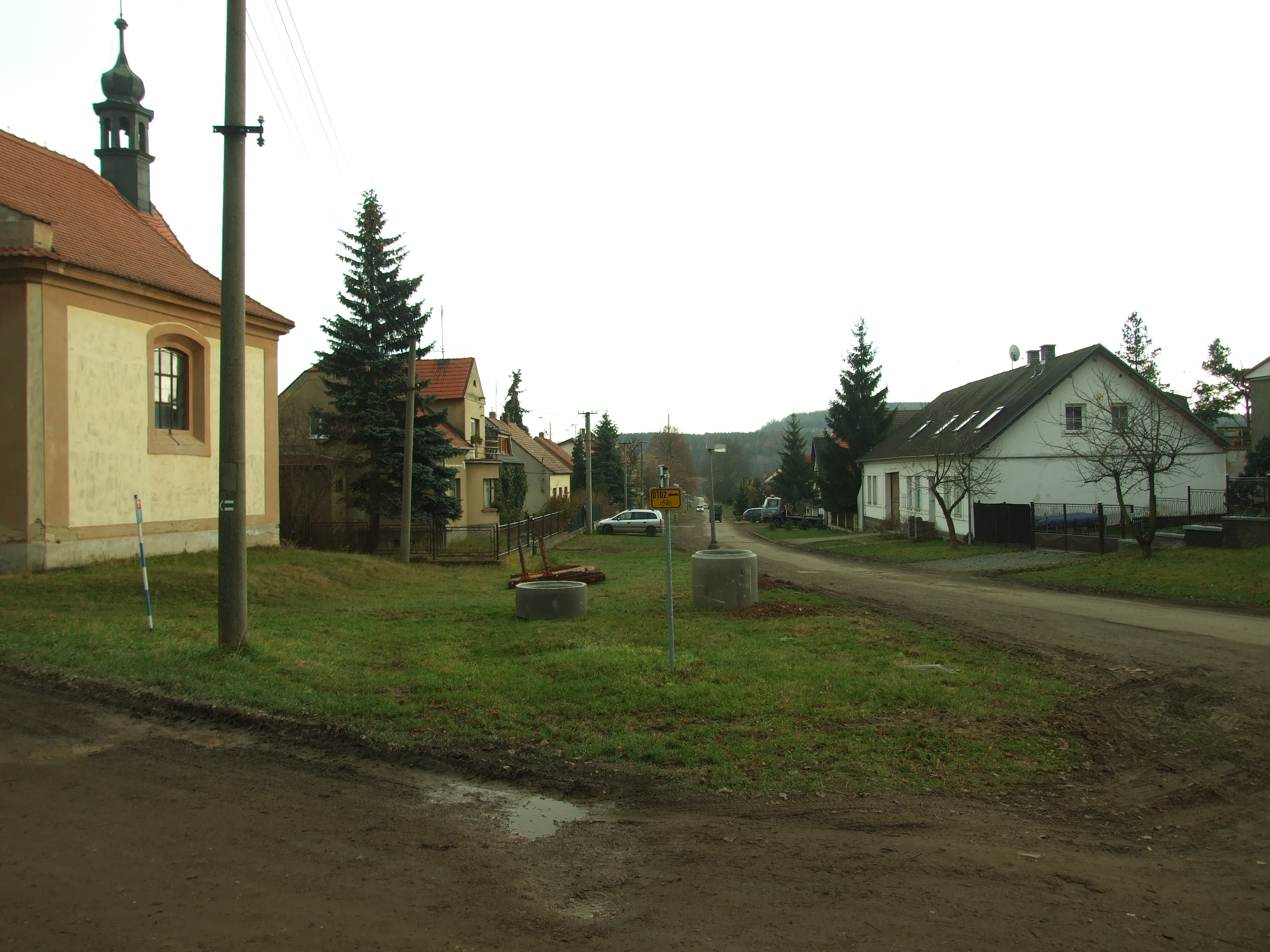 Ruda village, Central Bohemian Region CZhelp